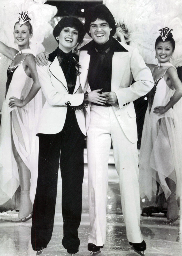 Photo of Donny and Marie Osmond from the television program The Donny & Marie Show.